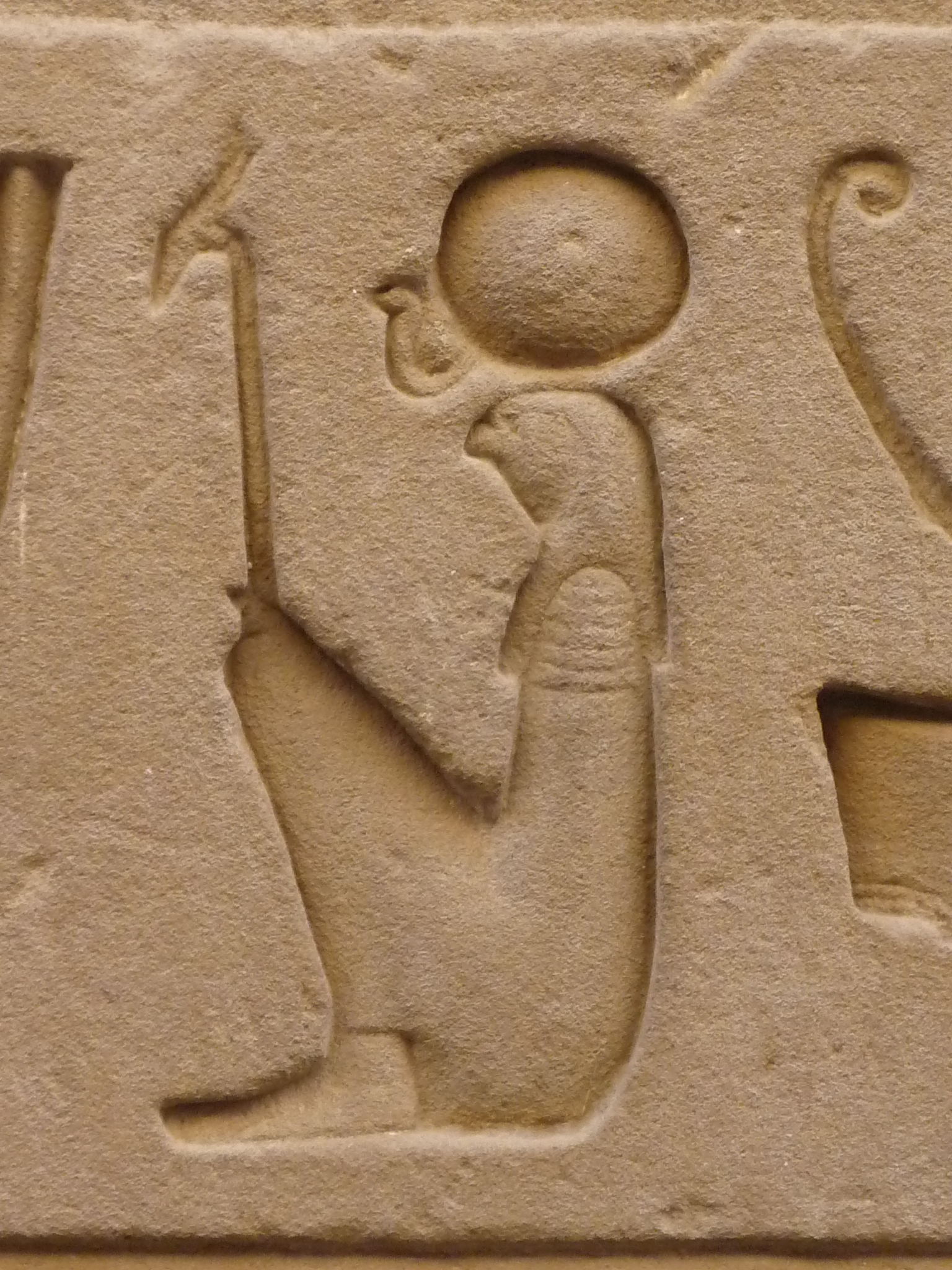 Wall relief of Ra, temple of Edfu, Egypt